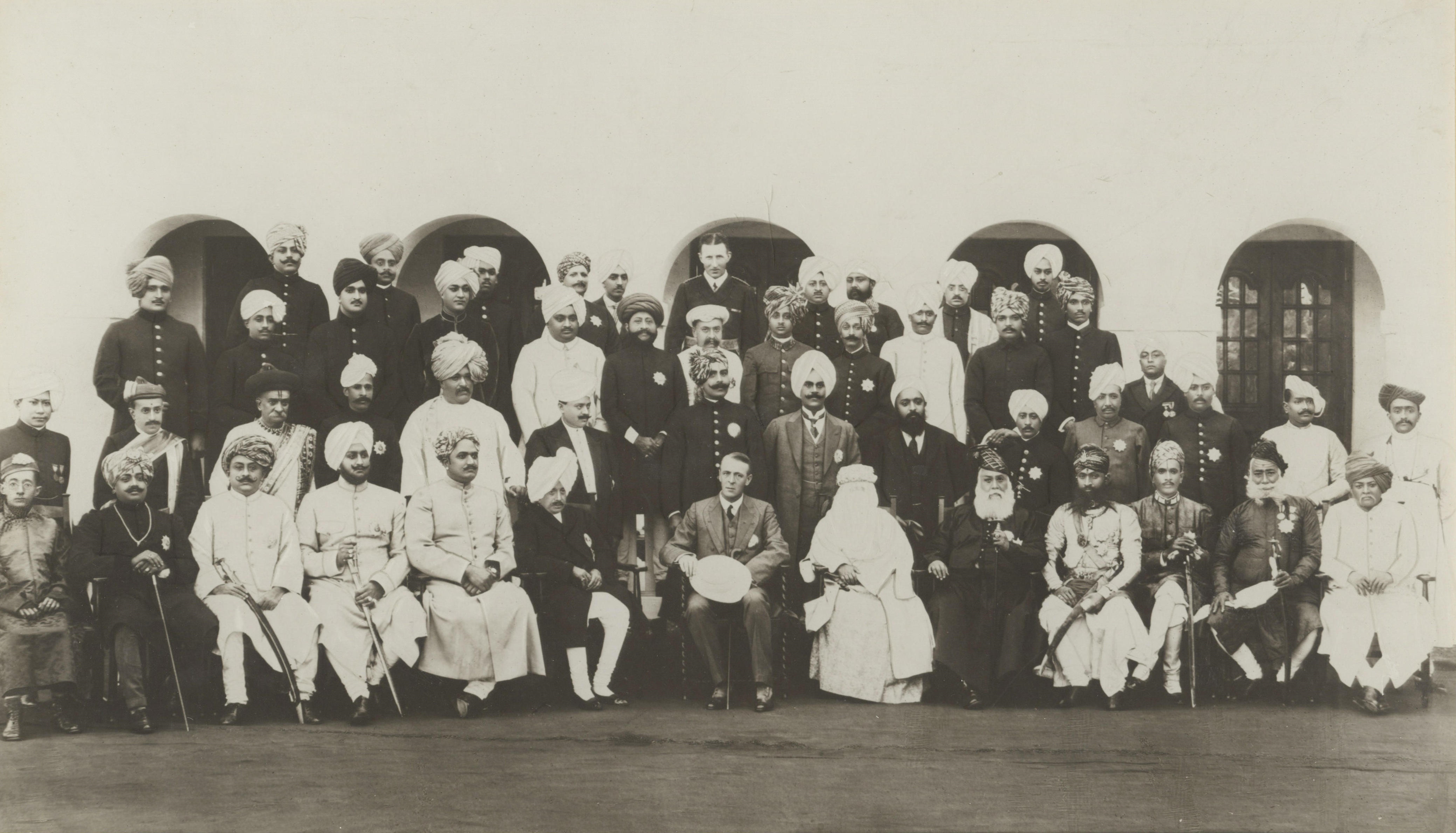 A group portrait of the Chamber of Princes (Narendra Mandal) meeting at Delhi of 1917. Gelatin silver print, printed caption listing sitters below, framed and glazed. Image approximately 210 x 360mm.